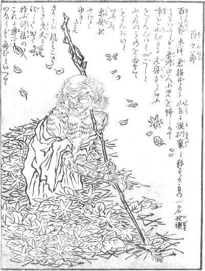 Momonjii (百々爺, an old-man who is waiting for you at every fork in the road) from the Konjaku Gazu Zoku Hyakki (今昔画図続百鬼)